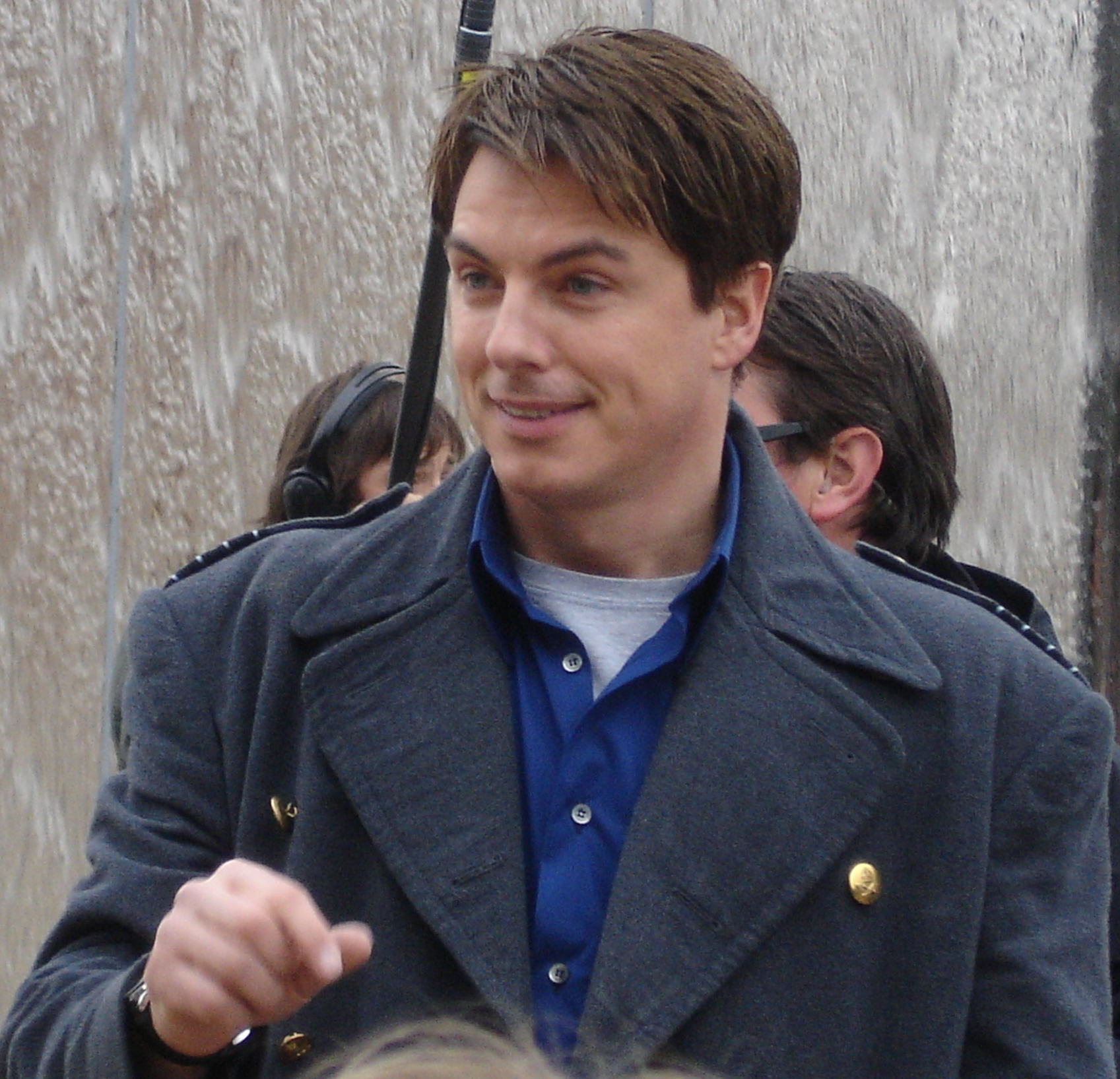 Cardiff Bay, Torchwood filming (cropped)